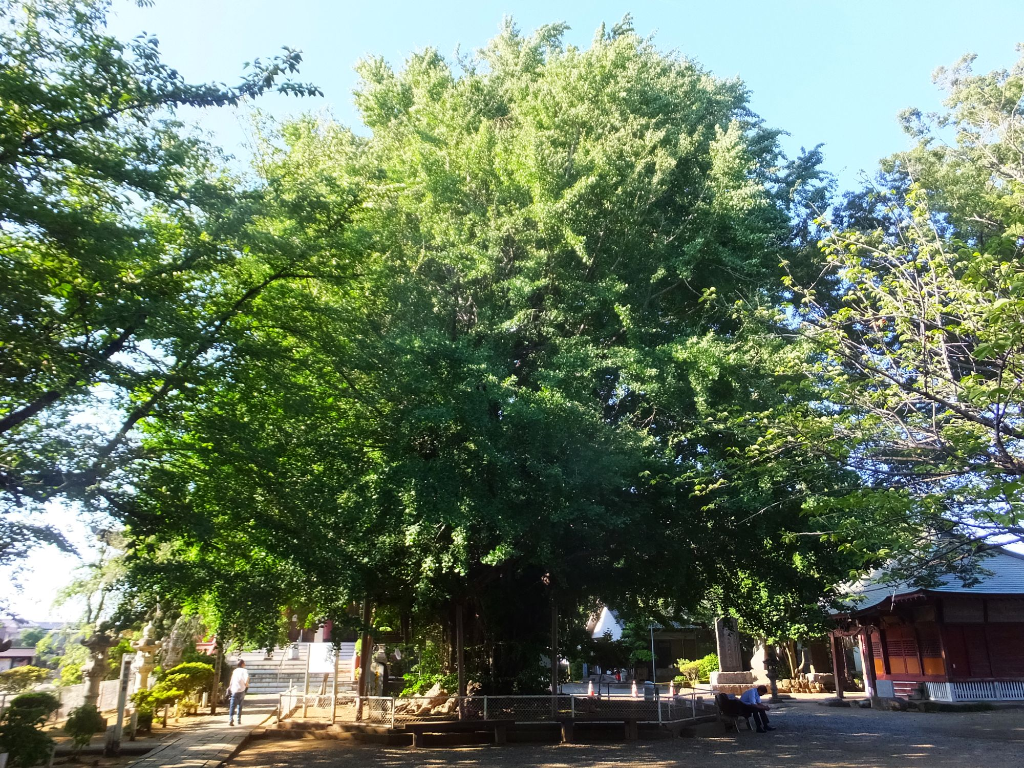 Gingko tree at Senyō-ji (Chiba-dera) temple in Chiba, Chiba Prefecture